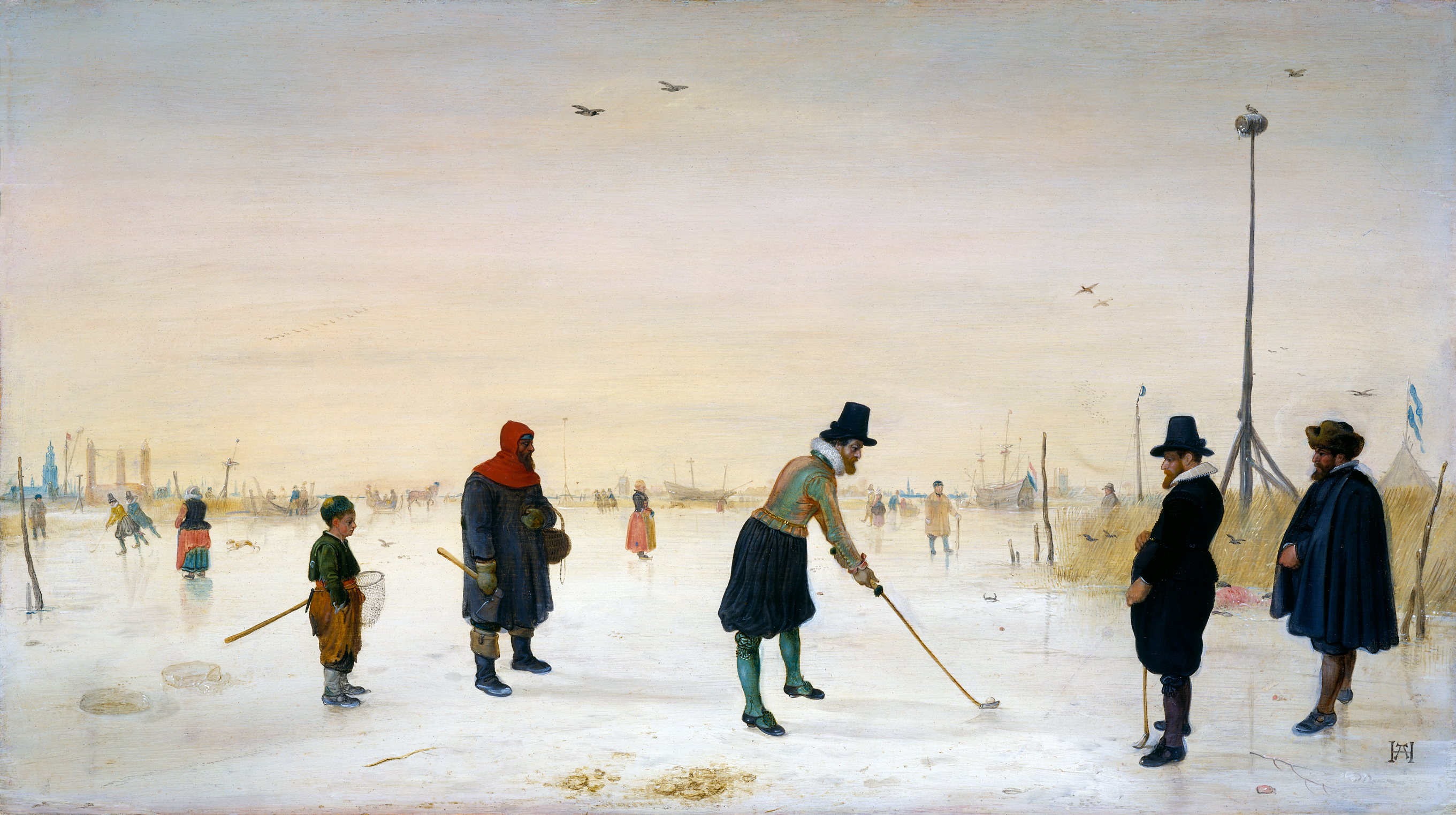 Kolfplayers on ice